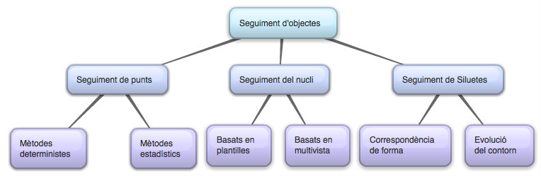 Esquema de les diferentes tècniques de seguiment d'objectes.